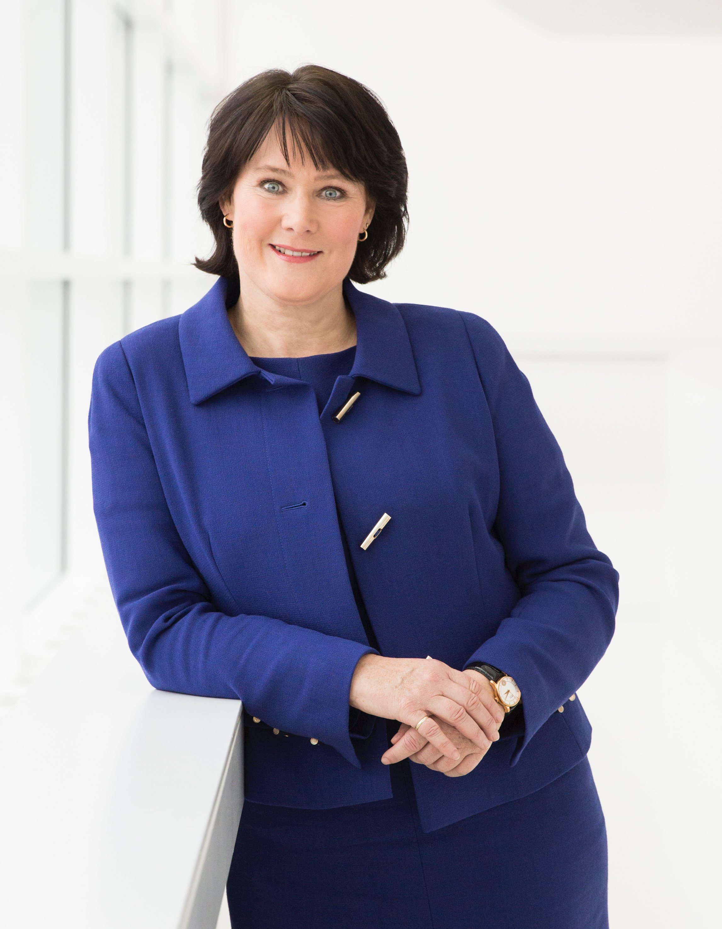 Anke Schäferkordt, German media manager